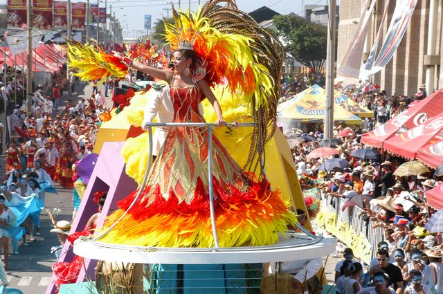 2009 barranquilla`s Carnaval Queen